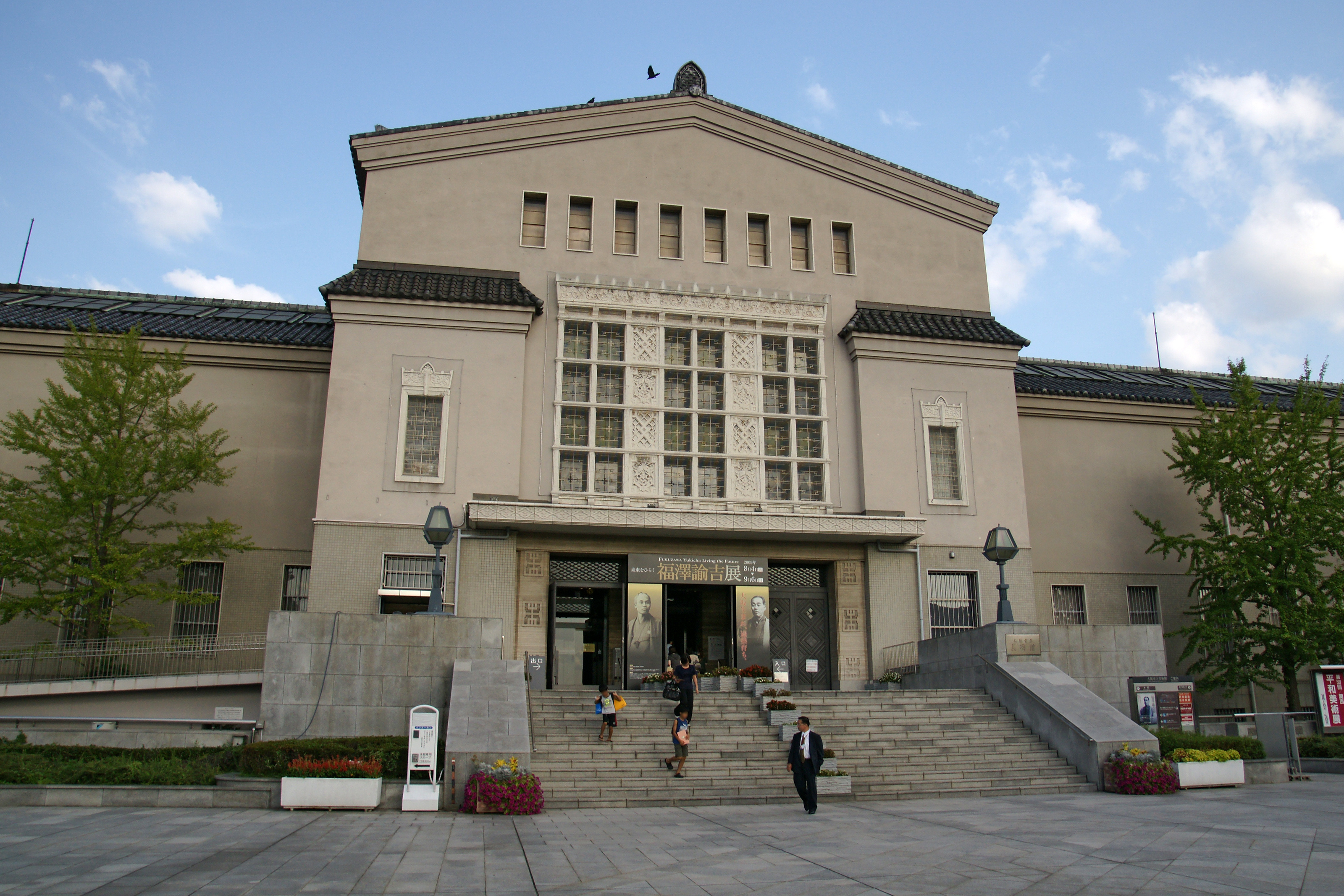 Osaka Municipal Museum of Art in Osaka, Osaka prefecture, Japan